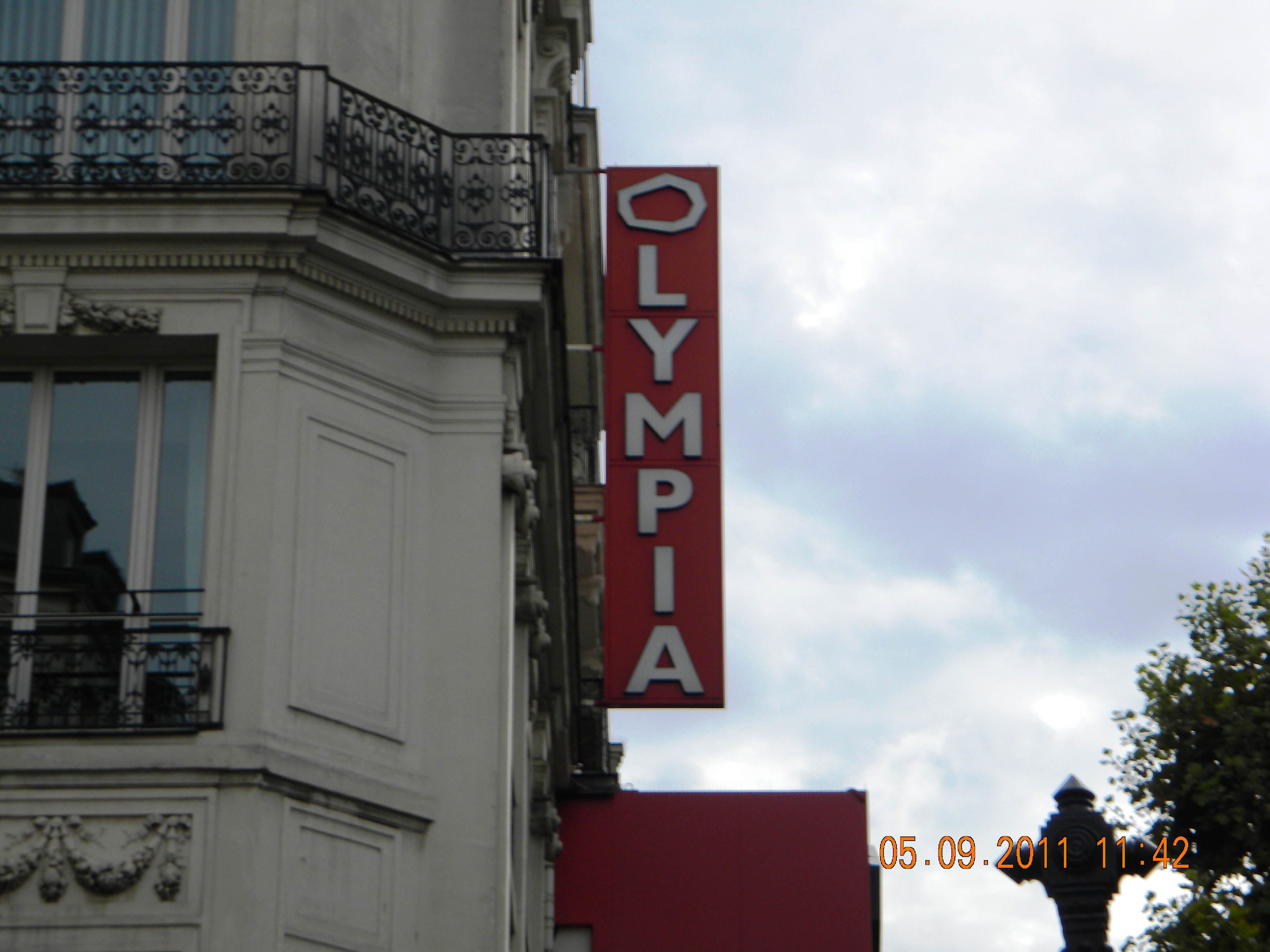 Olympia Music Hall, Boulevard des Capucines, Paris